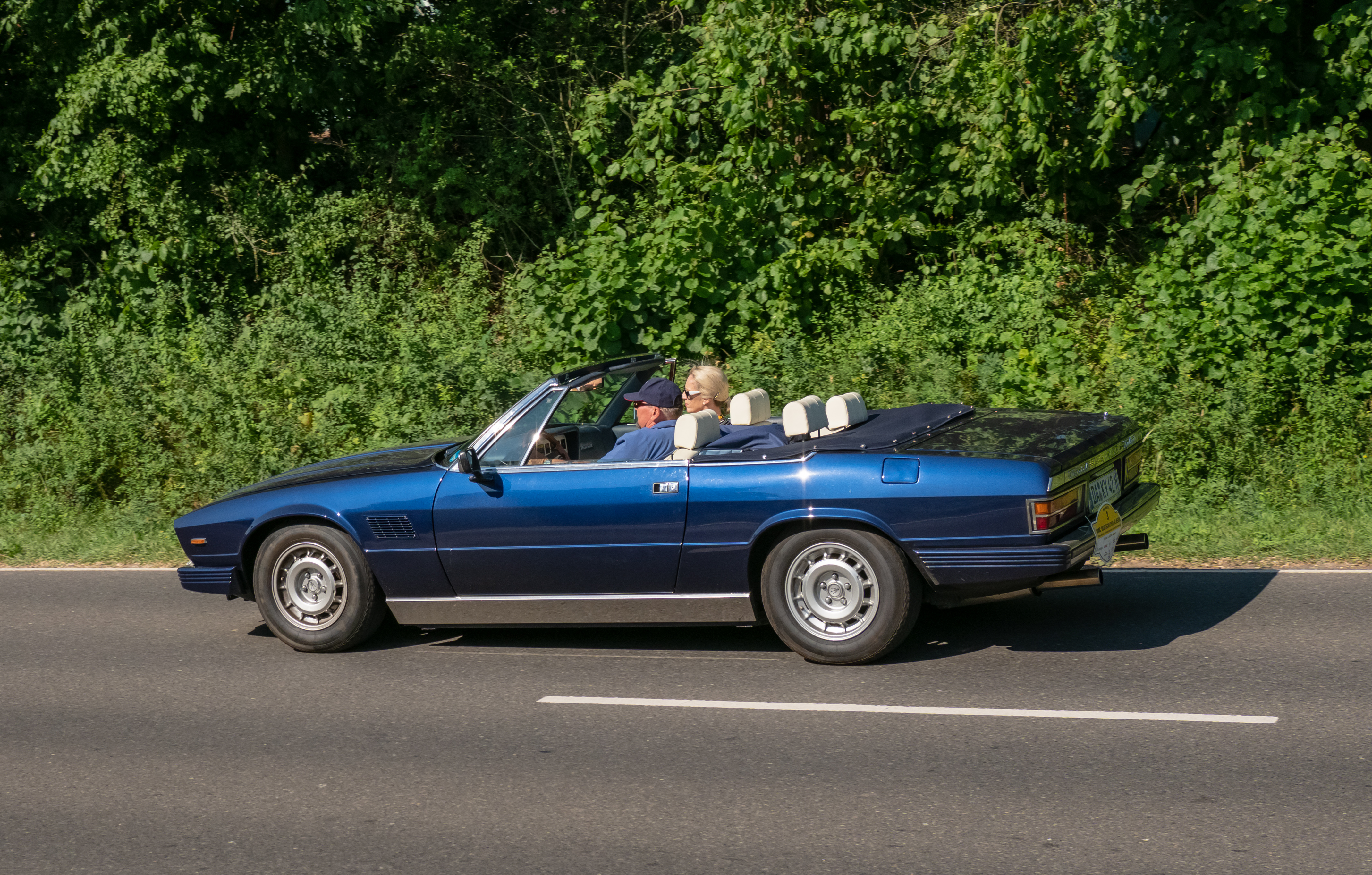 Maserati Kyalami Spider at ADAC Deutschland Klassik 2018